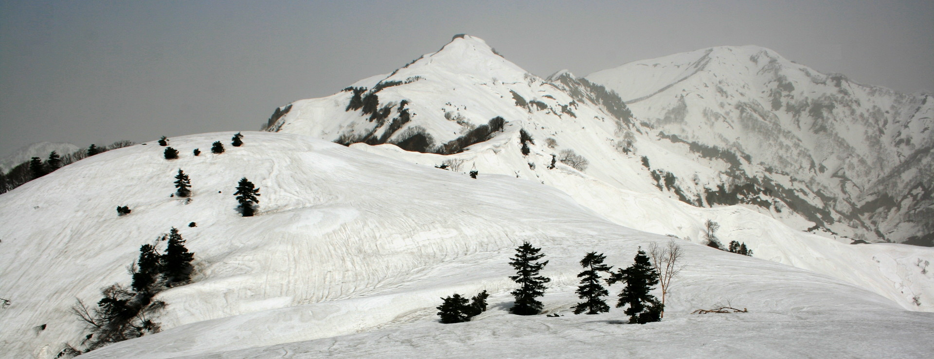 Mount Oizuru seen from Mount Senniniwaya